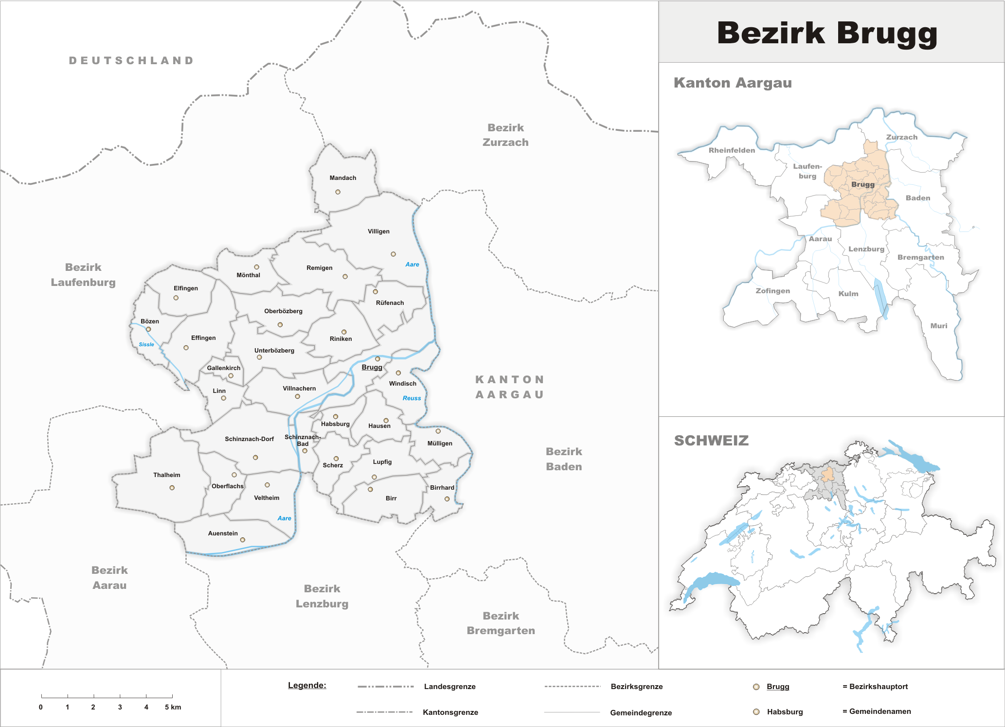 Municipalities in the district of Brugg to 2010